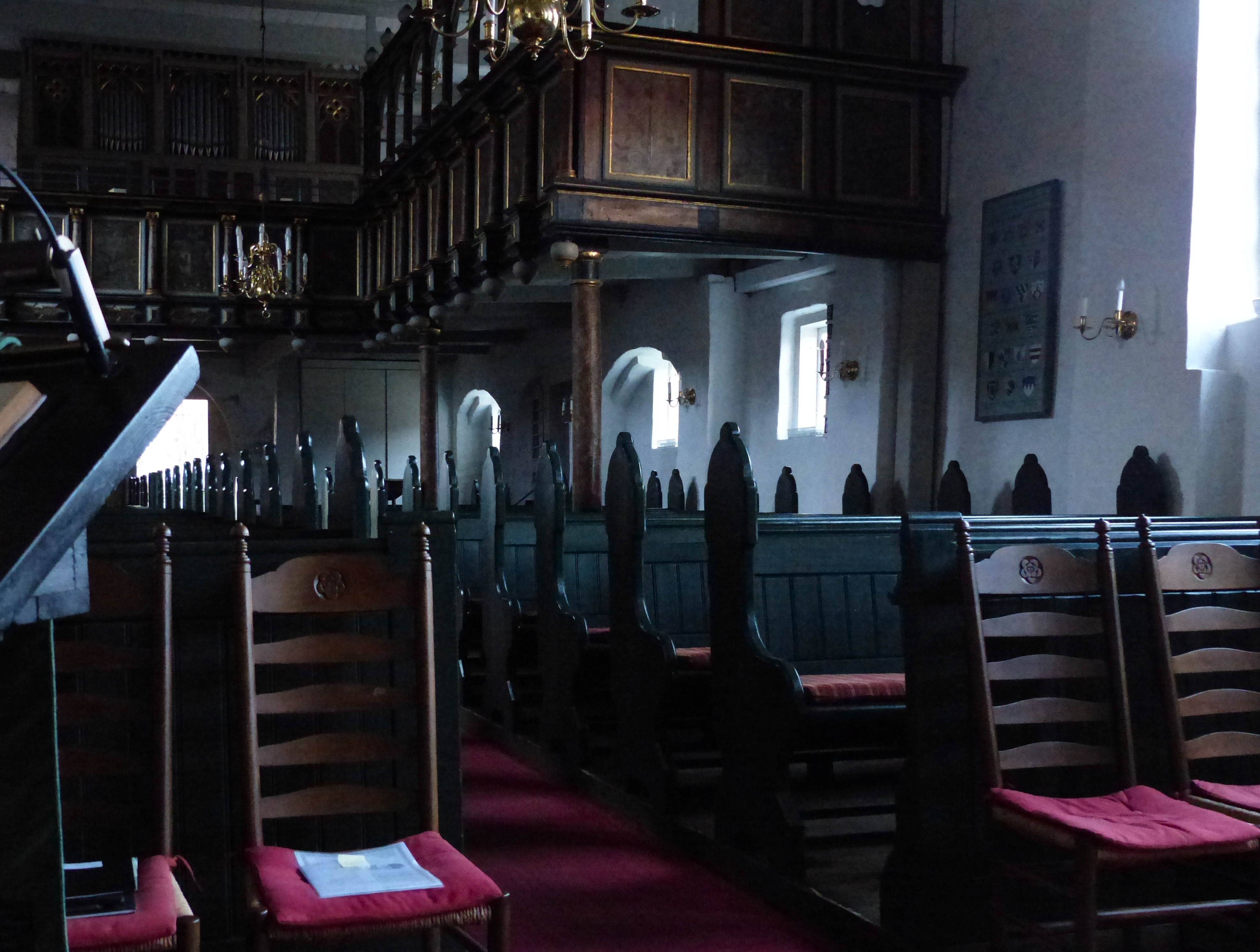 Asymmetric gallery of Neuenwalde Convent church 53°40′34″N 8°41′31″E / 53.6761344°N 8.6919211°E